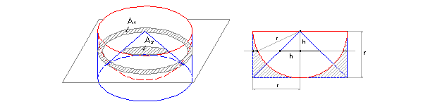 Luca Valerio